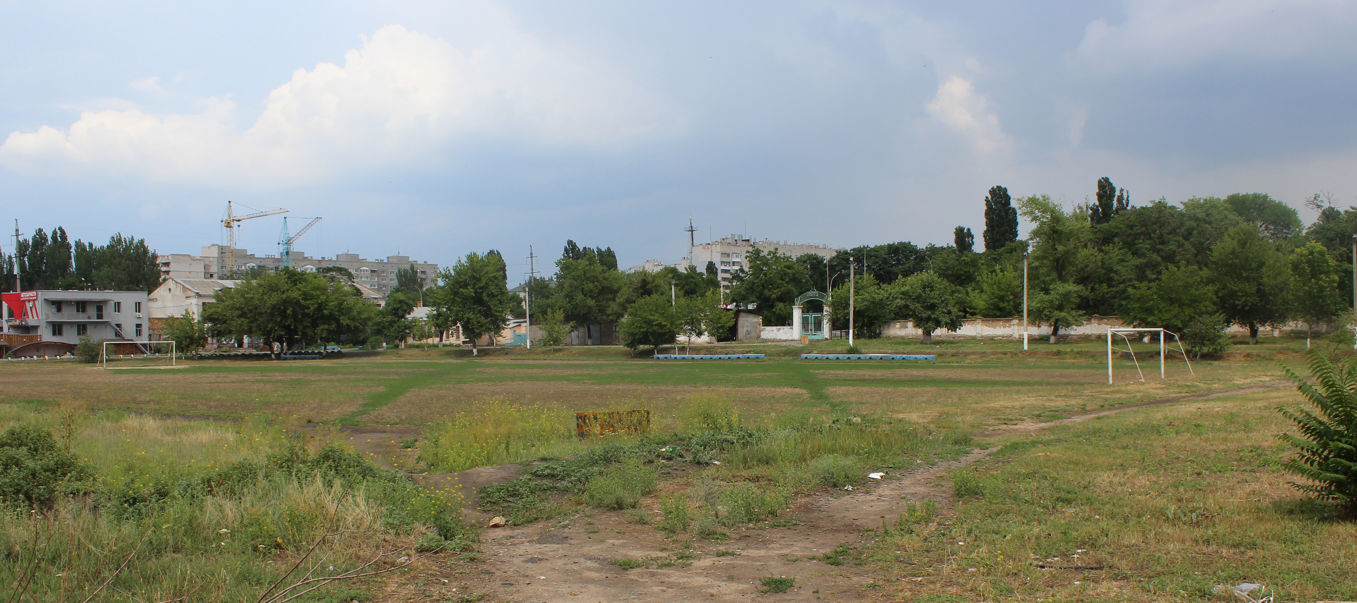 Pioner Stadium. Mykolaiv, Ukraine.